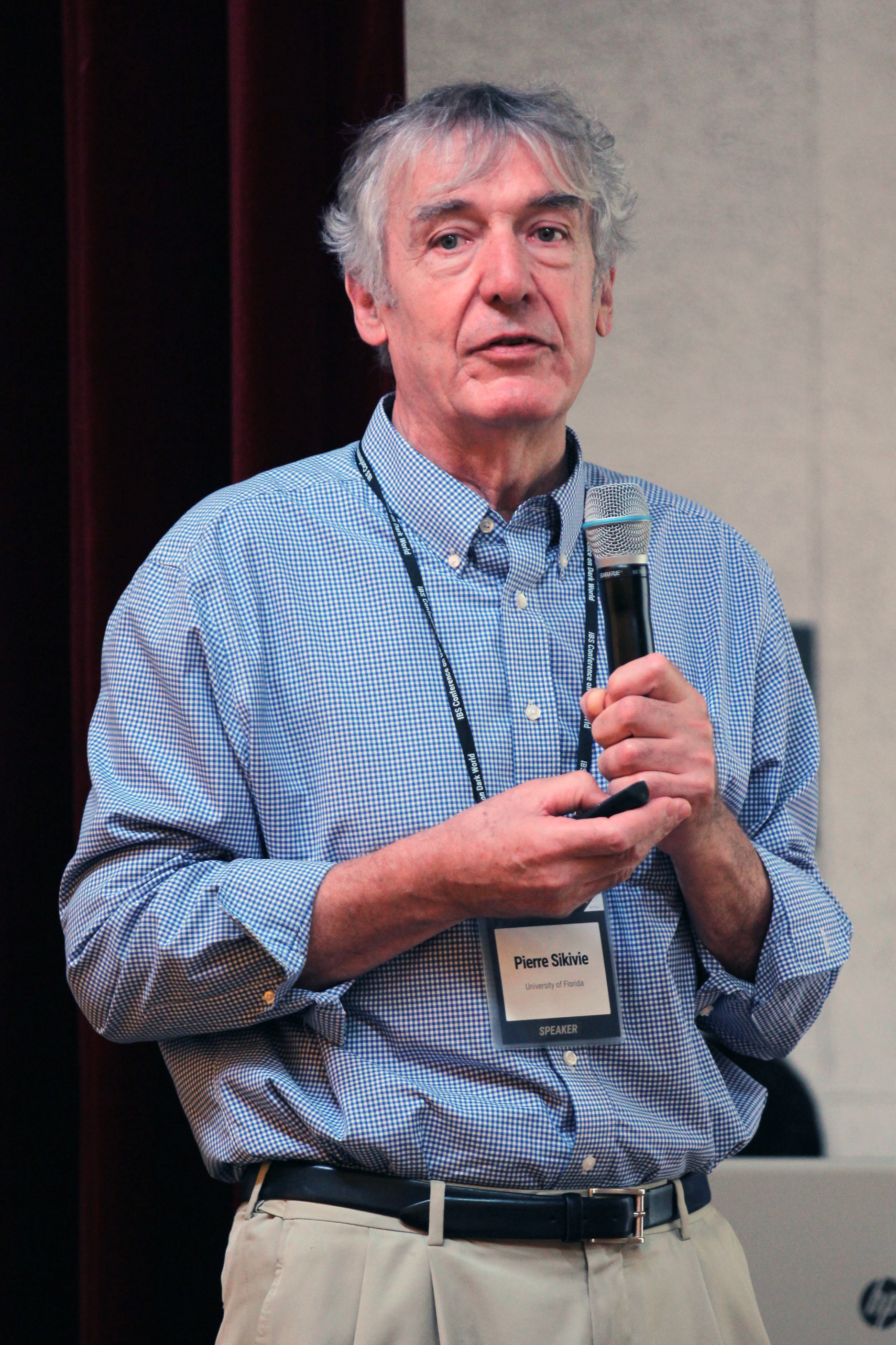 Pierre Sikivie giving a speech entitled Production and detection of an axion dark matter echo at the IBS Conference on Dark World in Daejeon, South Korea, November 4, 2019.